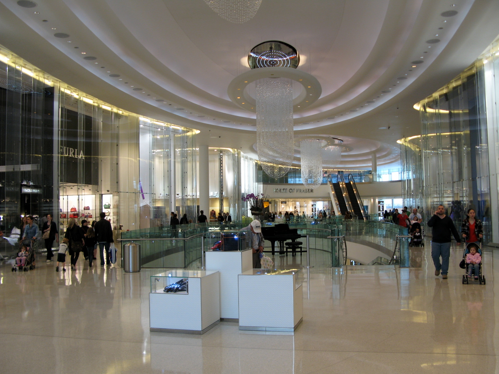 Westfield London The Village